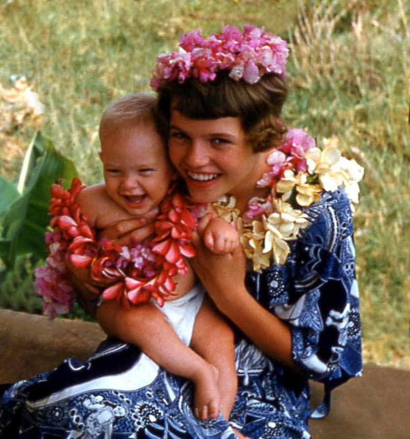 Visitors to Hawaii, 1959, wearing traditional Hawaiian costume and leis.